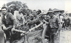 Newly rescued and sickly Cabanatuan POWs on water buffalo-driven carts.